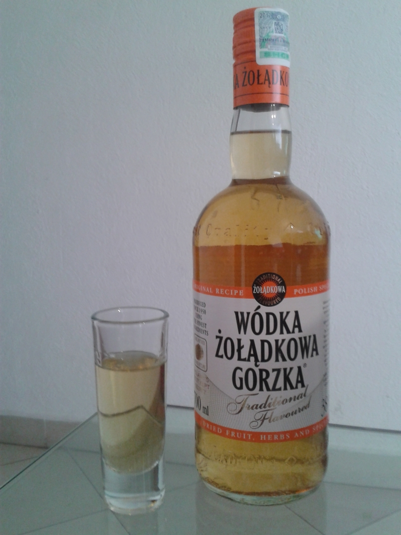 Bottle of Wodka Zoladkowa Gorzka Traditional in the new bottle introduced in 2009.